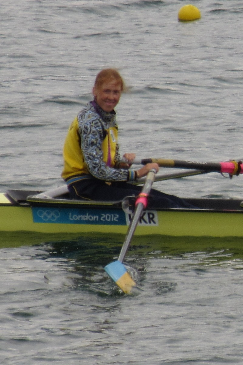 Kateryna Tarasenko, Olympic champion from Ukraine